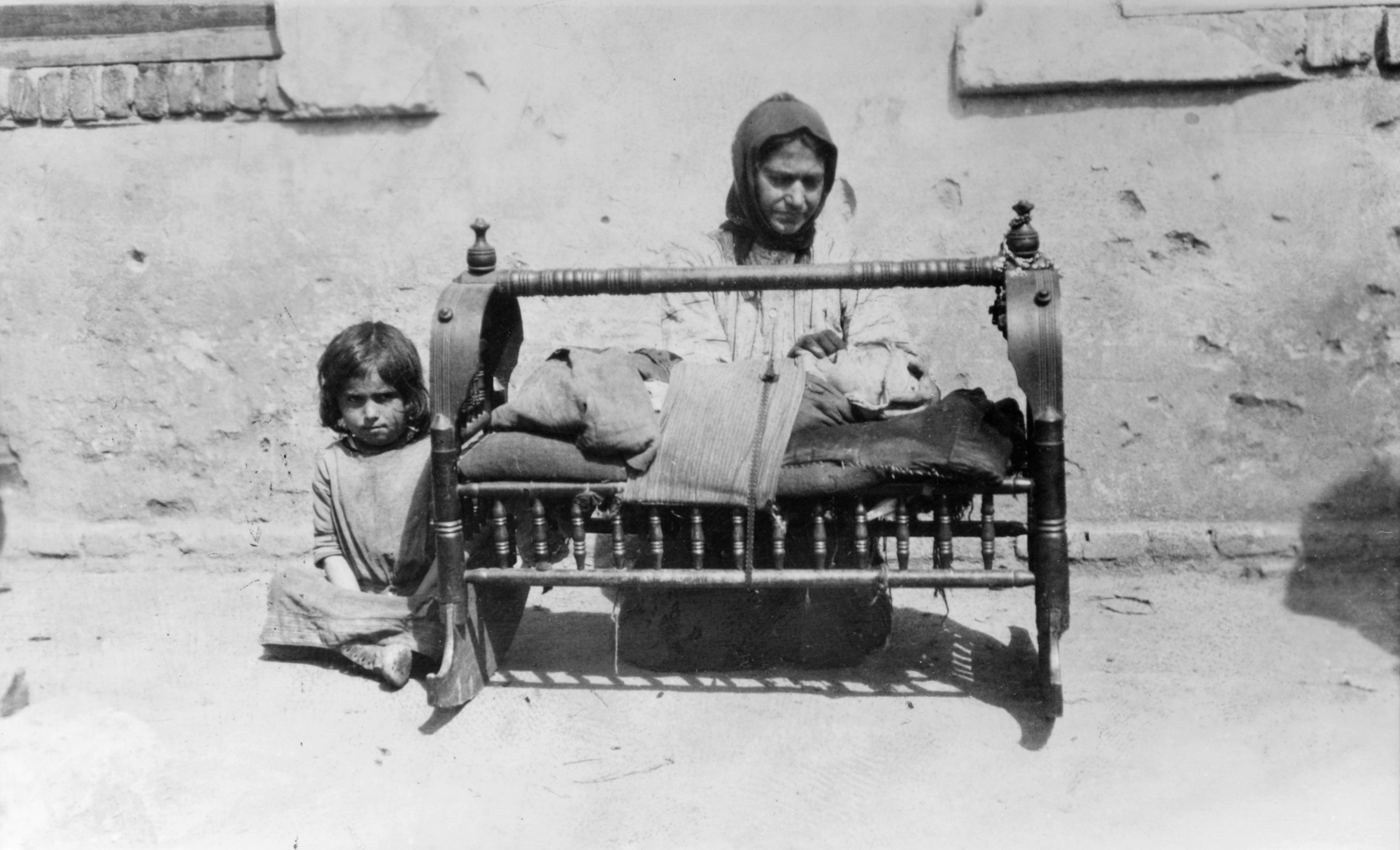 Near East Relief, a common sight among the Armenian refugees in Syria